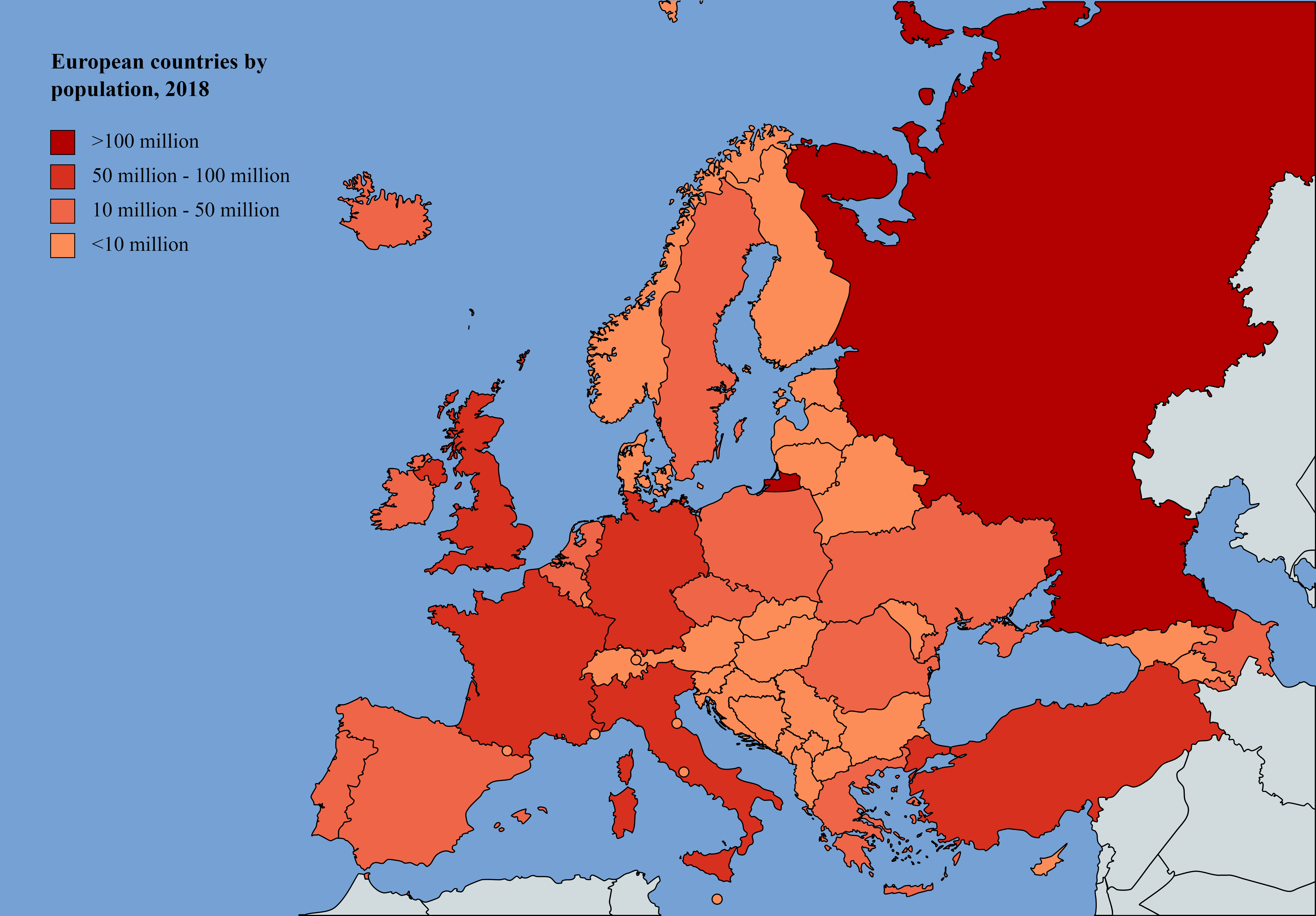 European countries by population (beginning of 2018) more than 100M 50M - 100M 10M - 50M less than 10M